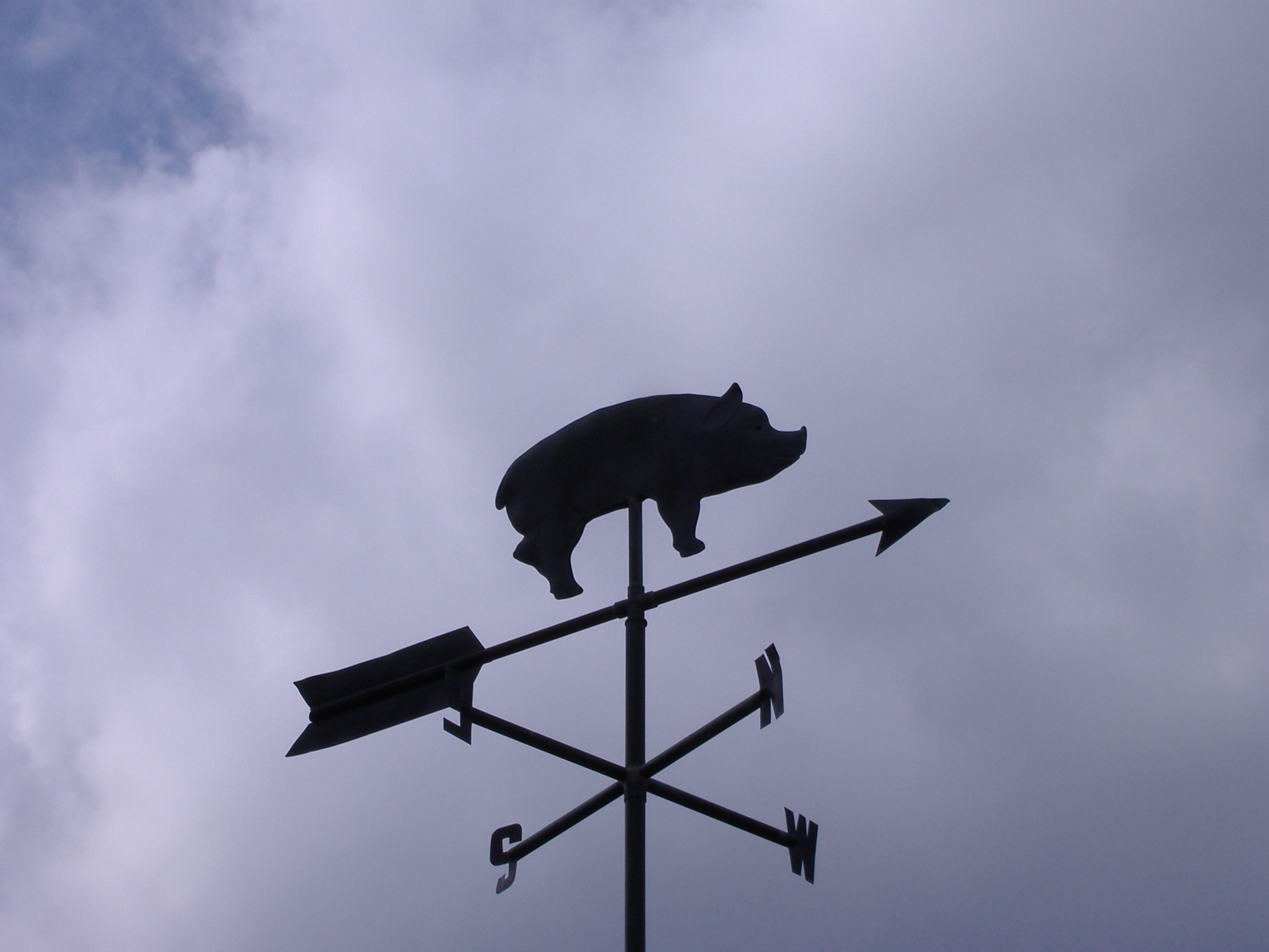 A pig weather vane on top of Wilber's Barbecue in Goldsboro, North Carolina.